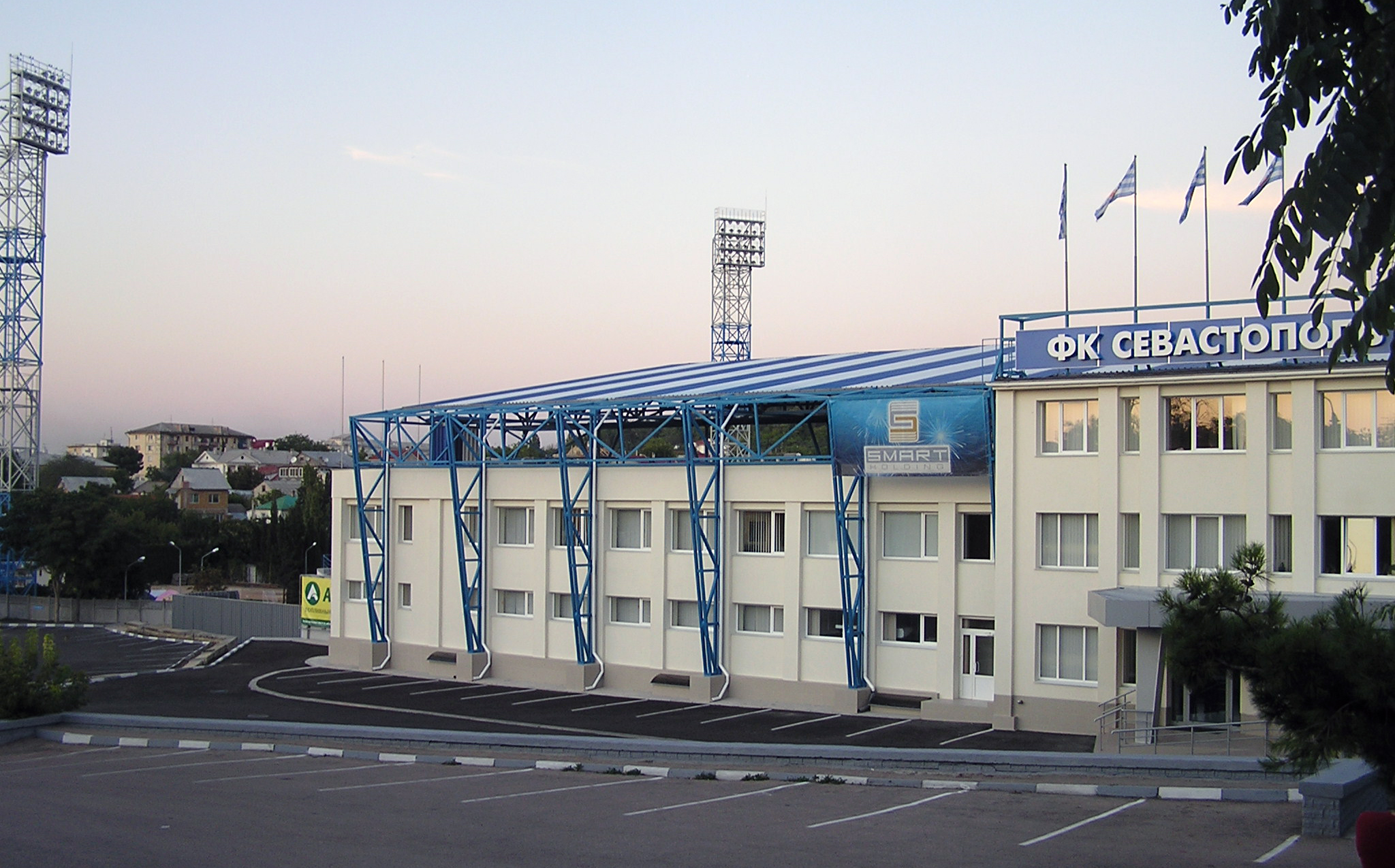 Sevastopol stadium